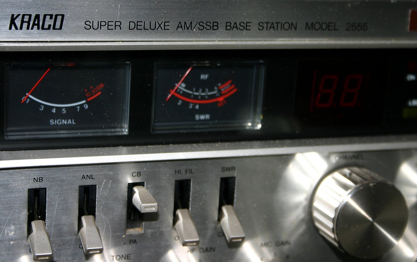 Kraco citizen band transceiver (AM/SSB)